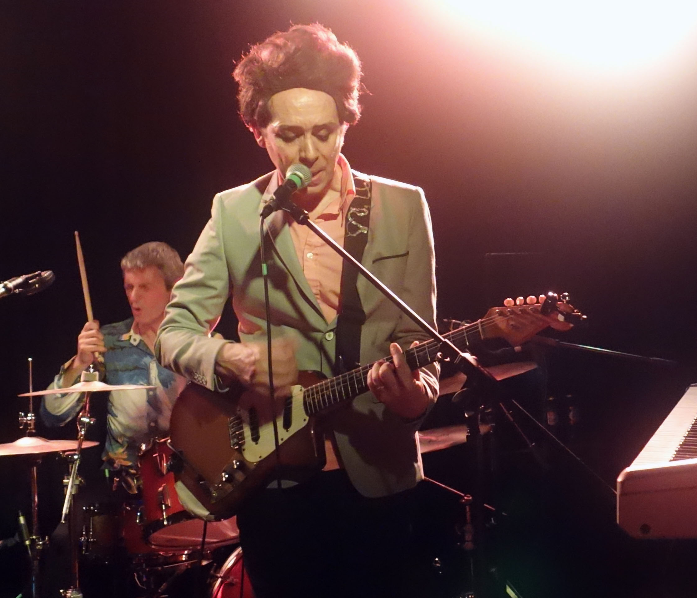 Mikey Georgeson performing as The Vessel with David Devant and his Spirit Wife at The Lexington in London in December 2014.